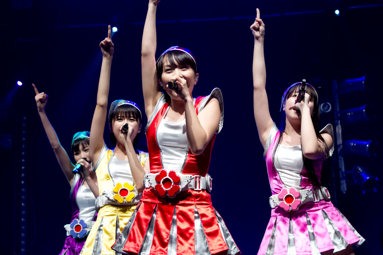 Members of Momoiro Clover Z, Japanese pop idol group. This Photo was taken in Japan Expo 2012 at Paris.